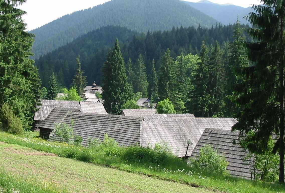 Museum of the Orava Village Zuberec.